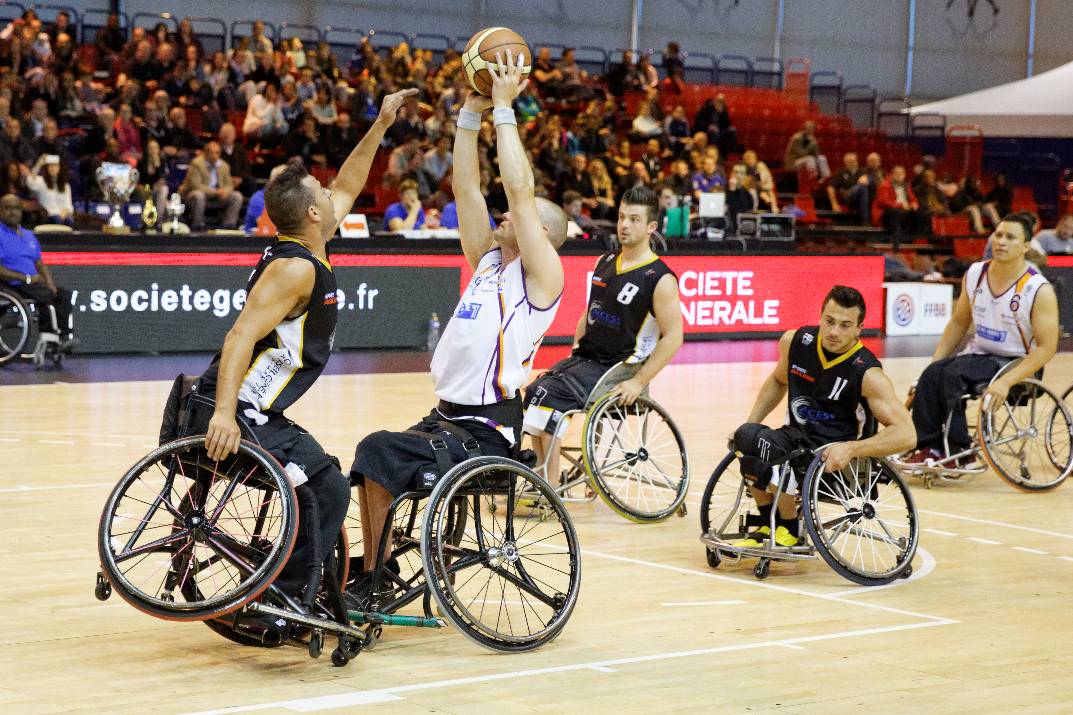 Final of the French Wheelchair Basketball Cup, CS Meaux vs Le Cannet, 1st May 2015.